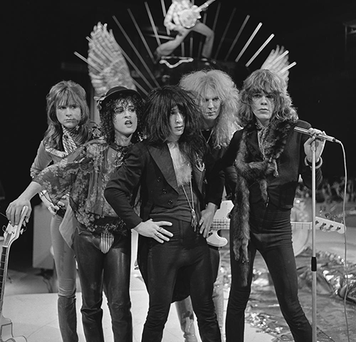 New York Dolls in AVRO's TopPop (Dutch television show) in 1973